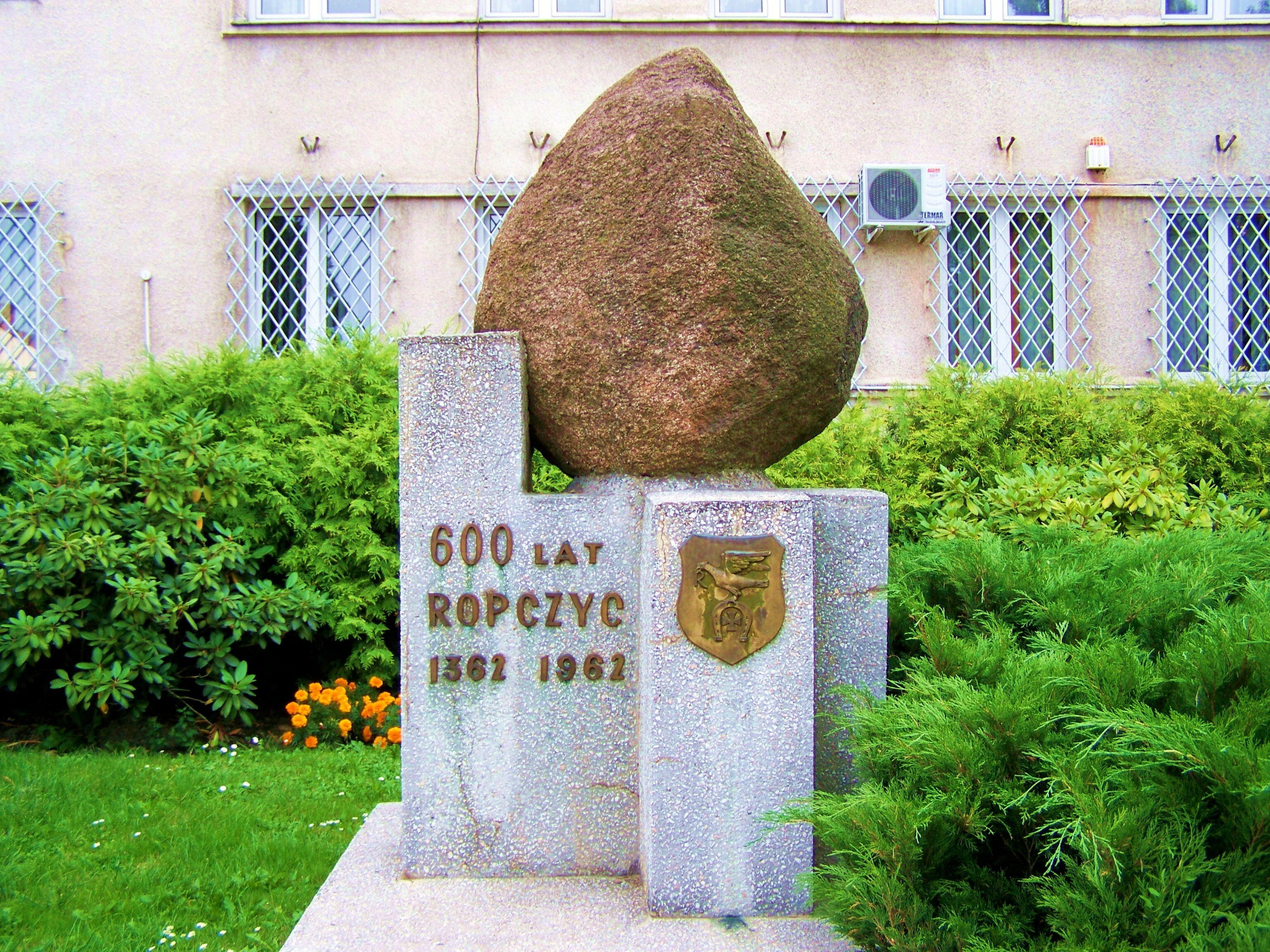 600 year anniversary monument Ropczyce, Poland